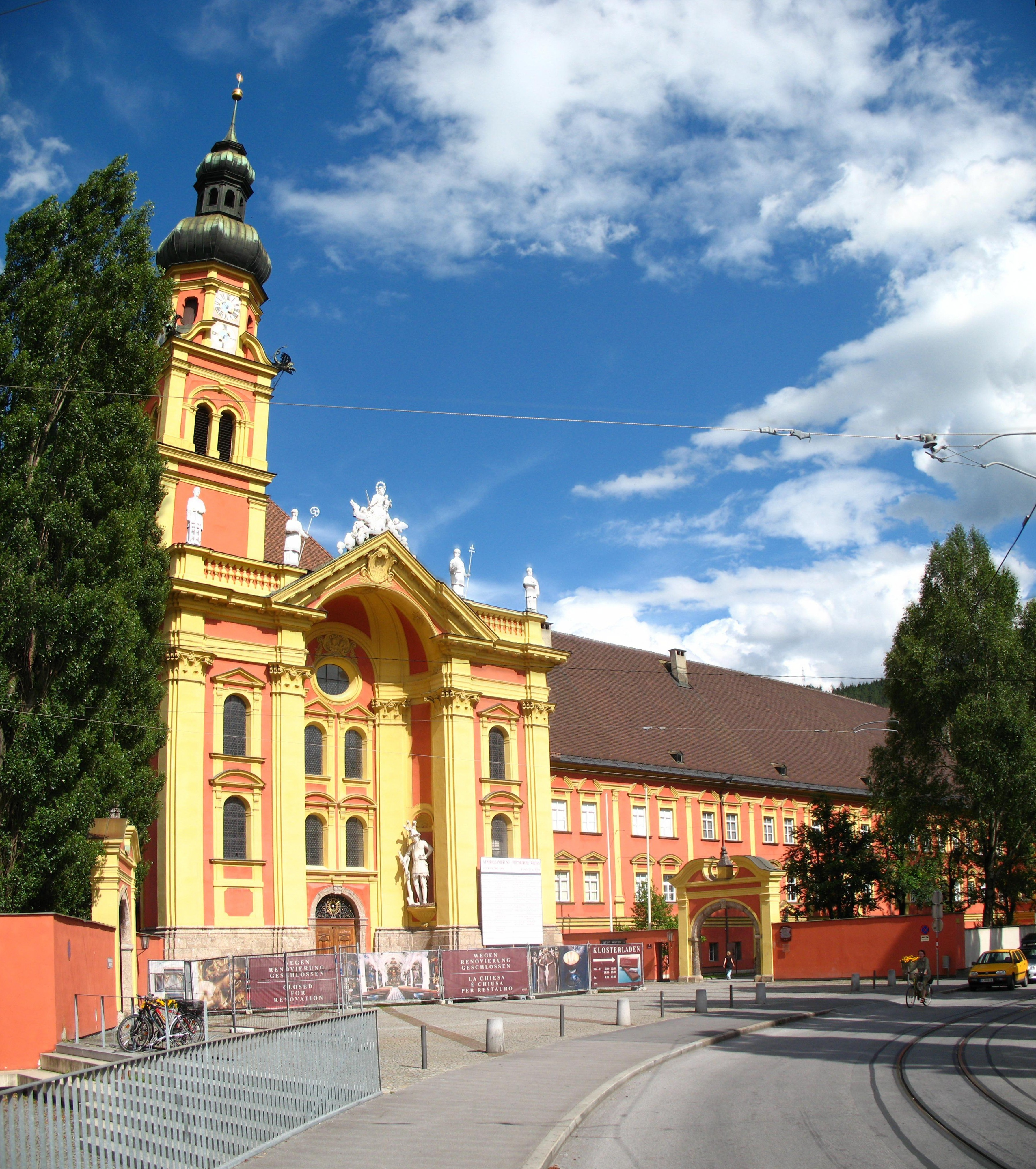 Abbey Church, Wilten, Austria